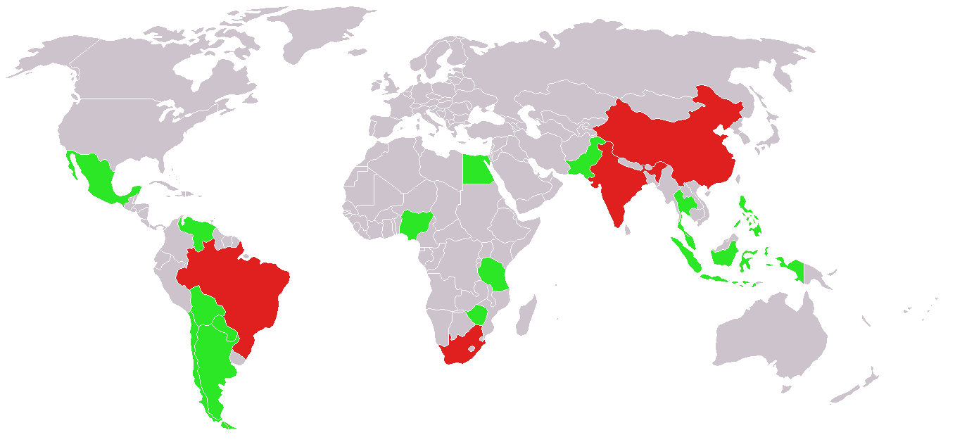 Map of the G4 bloc. G4 countries shown in red, other G20 countries in green. Based on User:Cool Cat's work at Image:G20 countries (DN).png. First uploaded in English Wikipedia as .